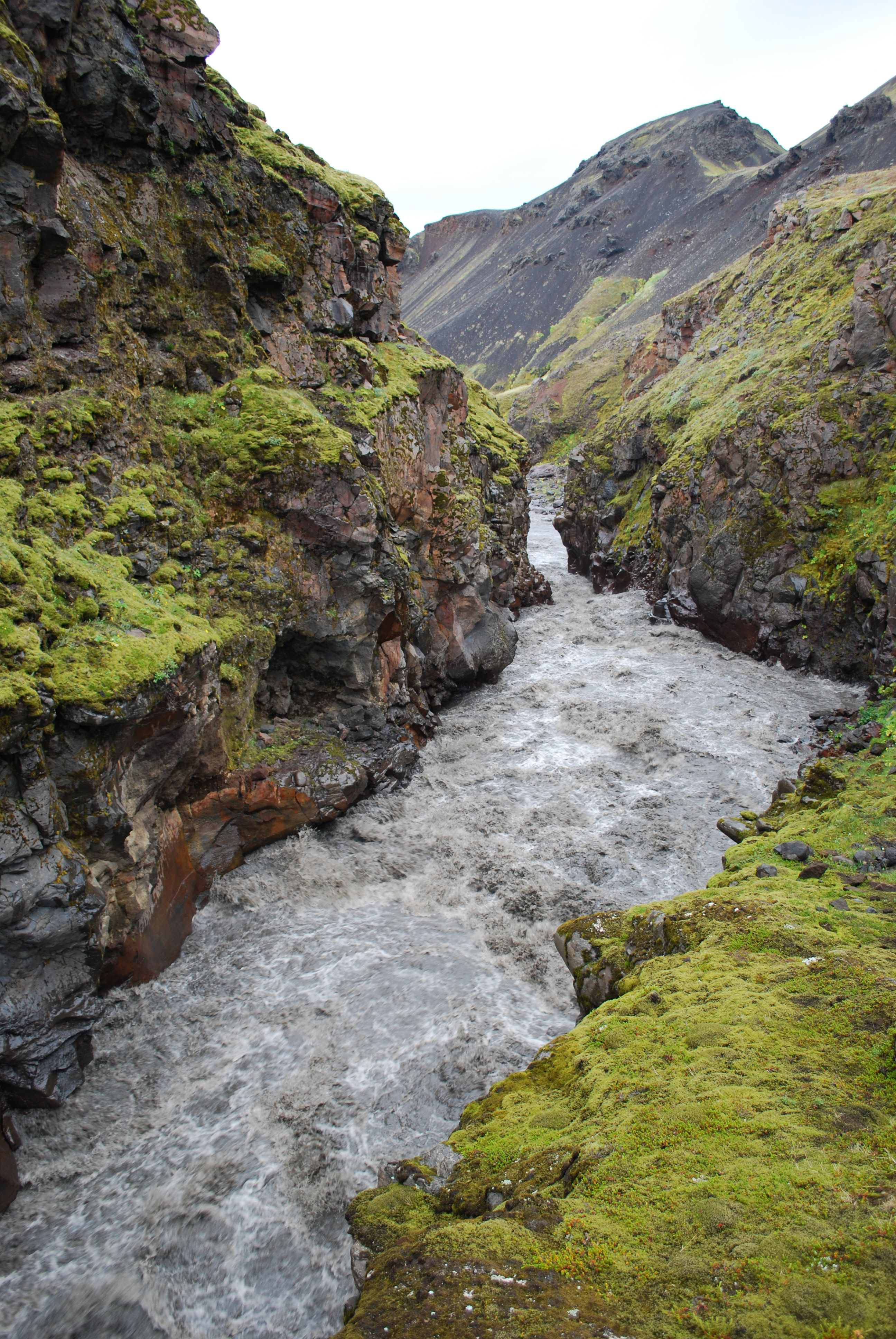 Fremri-Emstruá where the bridge over it is, imaged during Laugavegur, Iceland